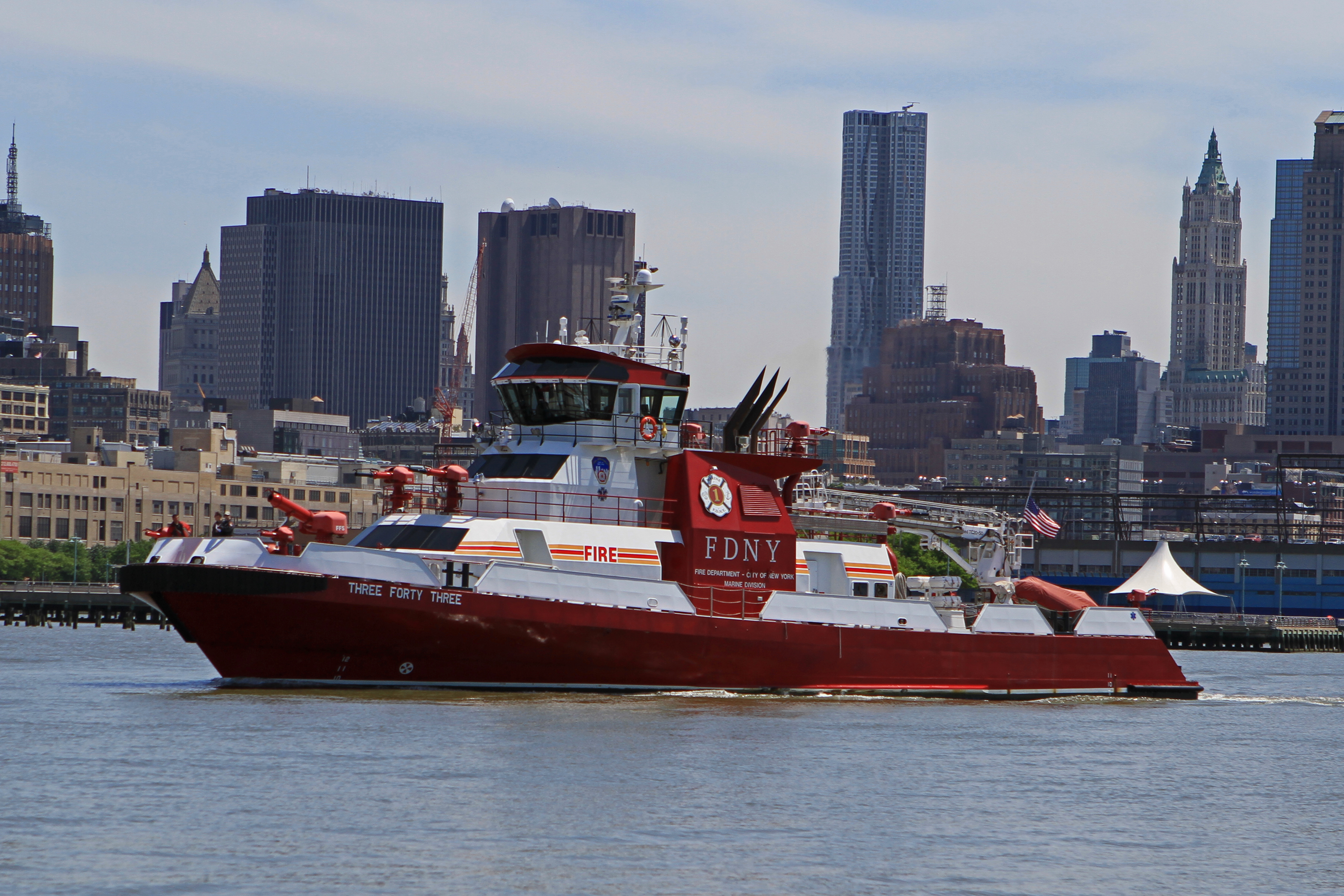 FDNY - Fireboat - Three-Forty-Three. Woolworth Building far right; 32 Avenue of Americas far left.